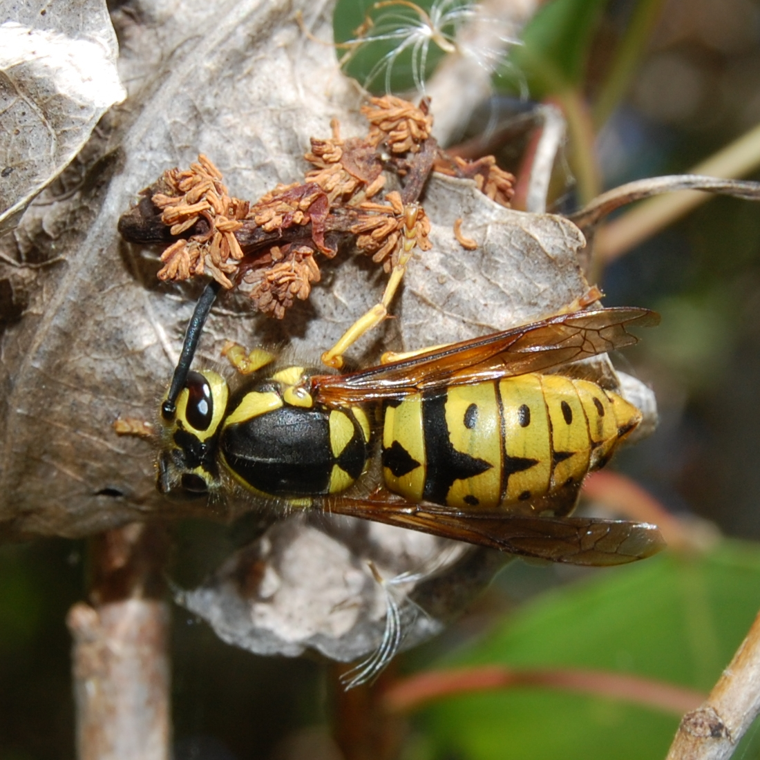 Western Yellowjacket. Queen. San Jose, California, USA.